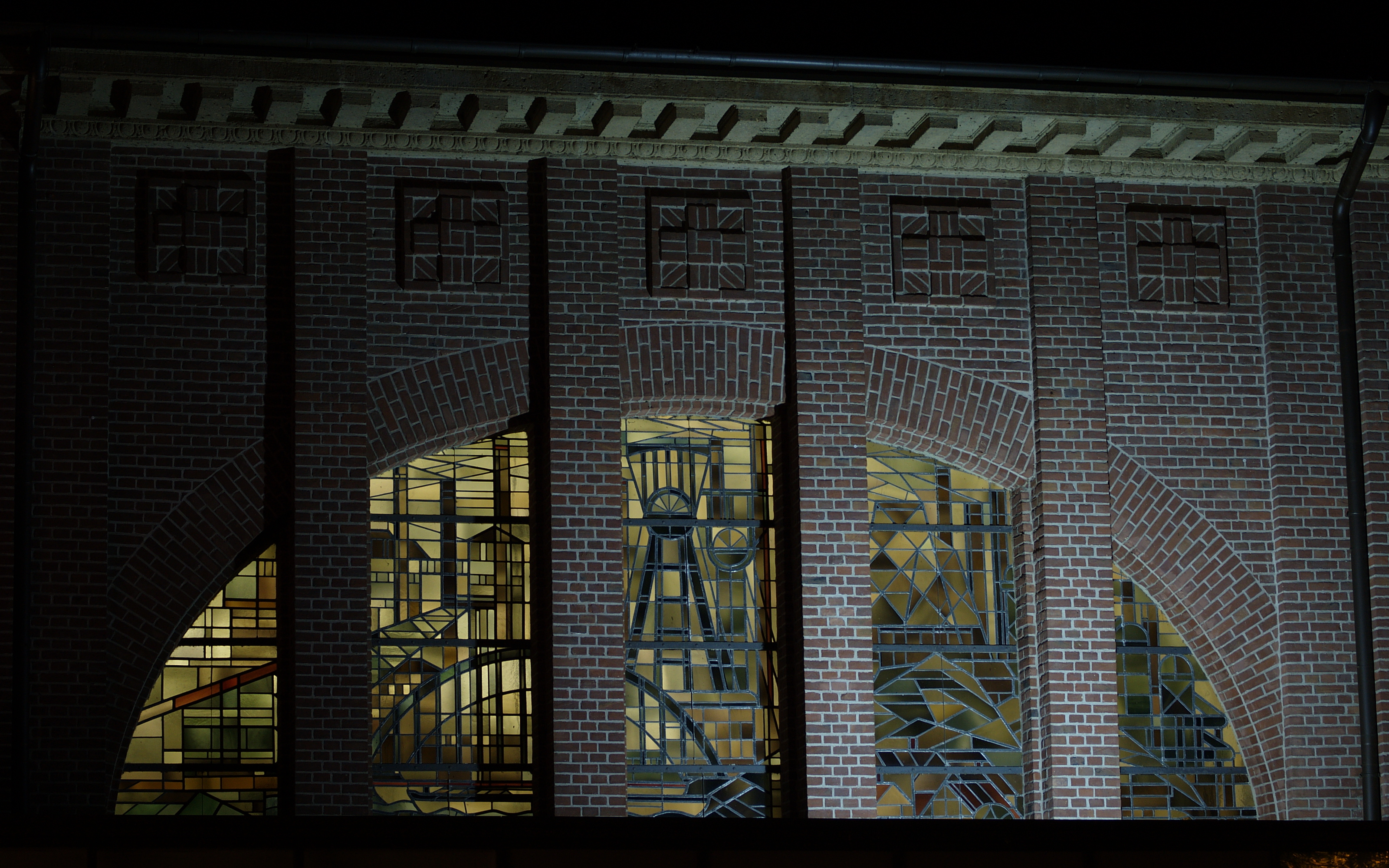 The glass panel of the train station in Herne, Germany